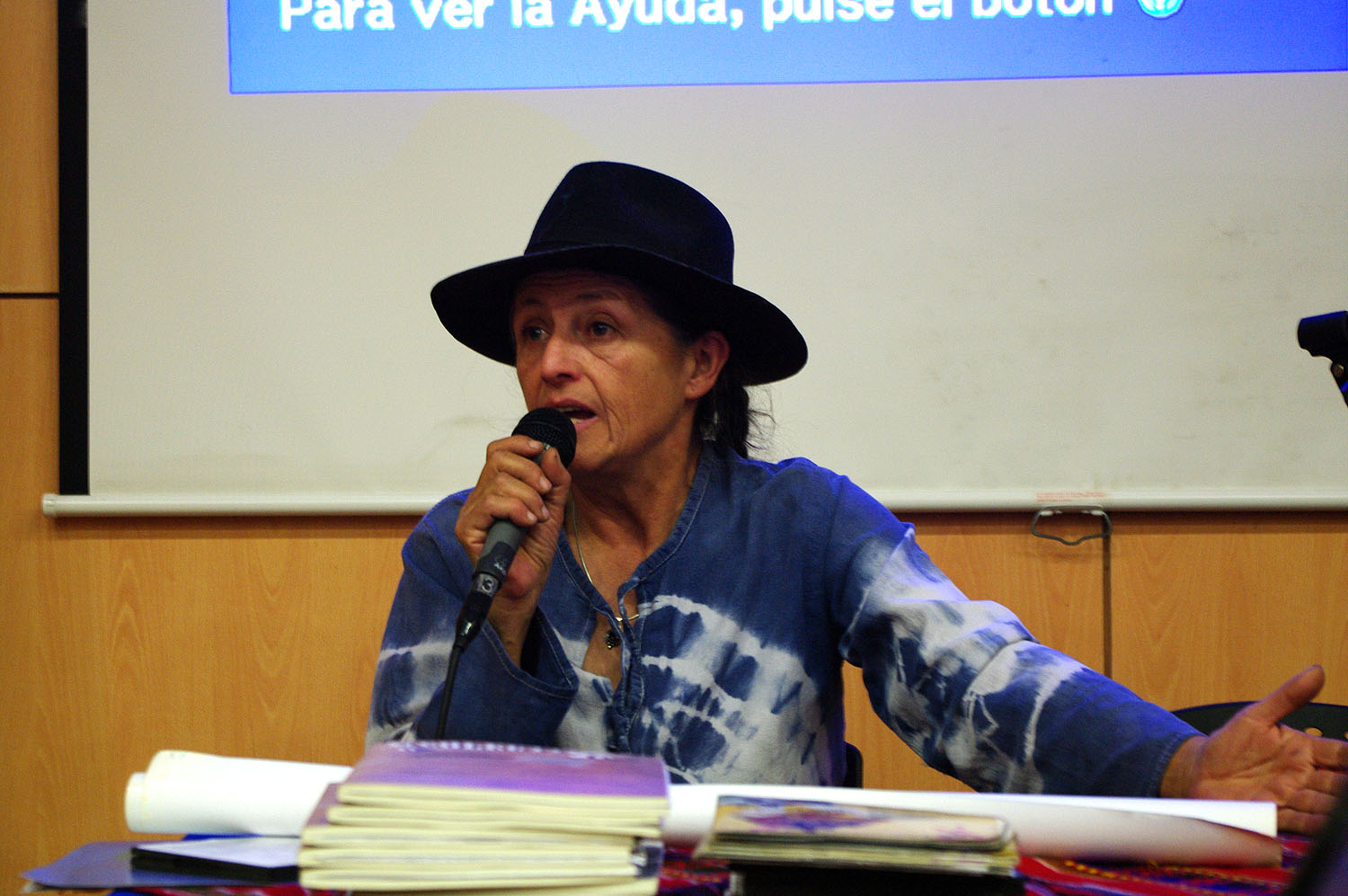 Silvia Rivera in a seminar about globalisation and indigenous rights in the northem of Chile